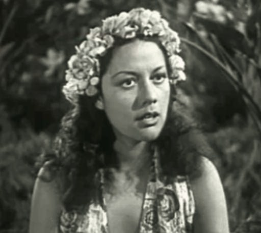 Movita Castaneda in Paradise Isle (1937) - cropped screenshot